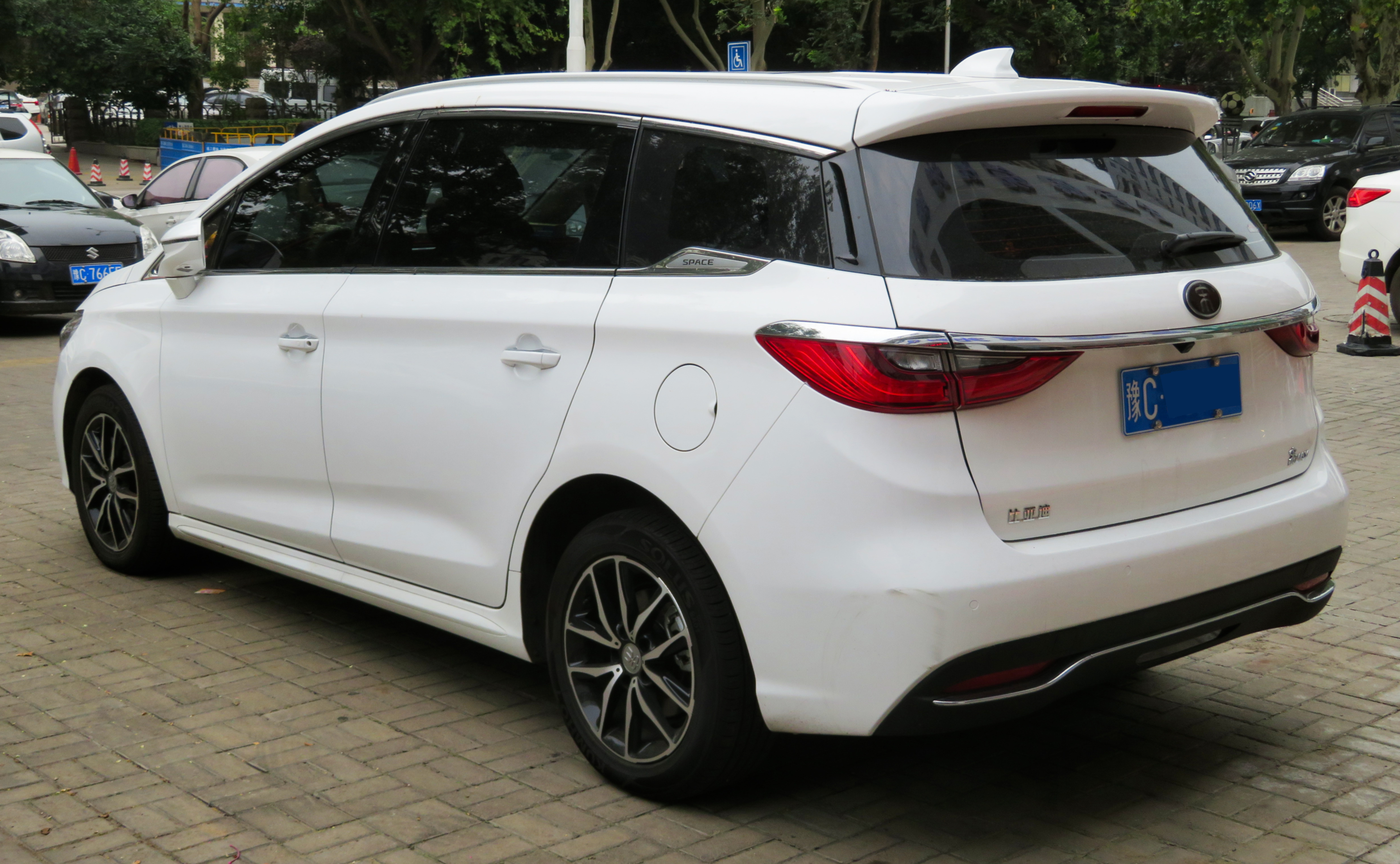 2018 BYD Song Max photographed in Xigong District, Luoyang, Henan province, China